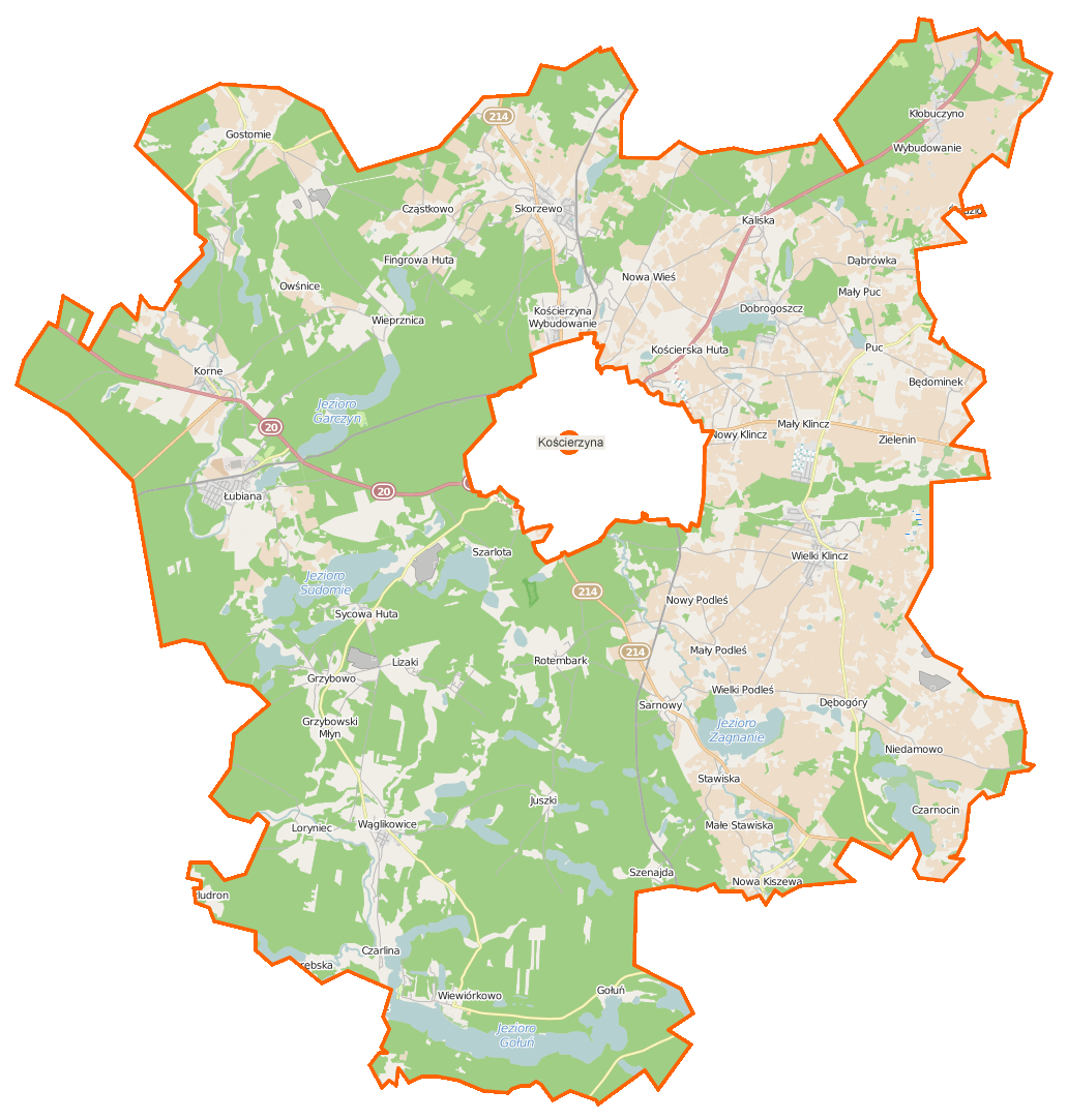 Map of Gmina Kościerzyna, Poland This map of Kościerzyna (gmina wiejska) was created from OpenStreetMap project data, collected by the community. This map may be incomplete, and may contain errors. Don't rely solely on it for navigation.